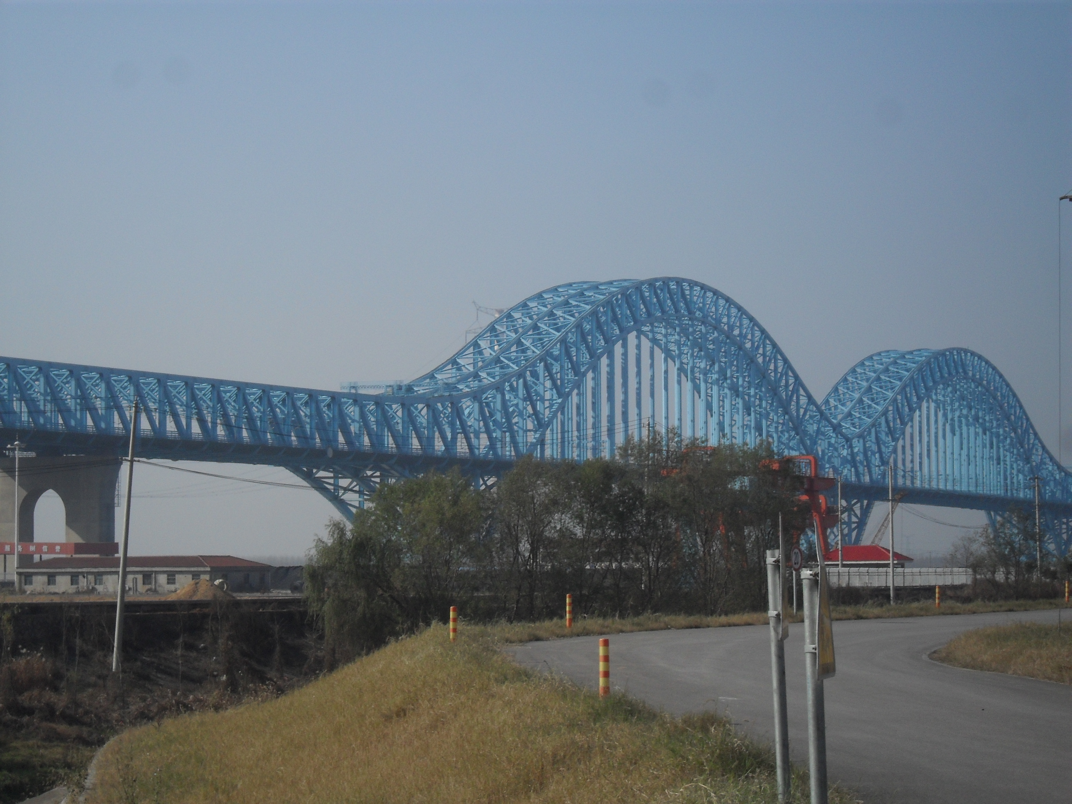 南京大胜关铁路桥 The Dashengguan railway bridge